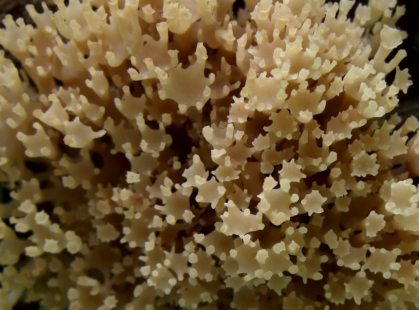 Artomyces pyxidatus (Pers.) Jülich Image location: Tuscarawas Co., Ohio, USA Some kind of coral fungus [admin – Sat Aug 14 02:07:01 +0000 2010]: Changed location name from ‘Tuscarawas County, Ohio, USA’ to ‘Tuscarawas Co., Ohio, USA’ Recognized by sight For more information about this, see the observation page at Mushroom Observer.